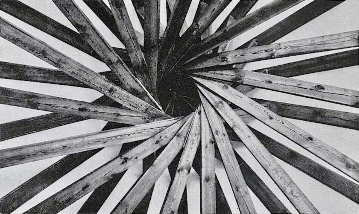 Musikheim in Frankfurt an der Oder, Germany, planned by architect Otto Bartning (1878–1959).